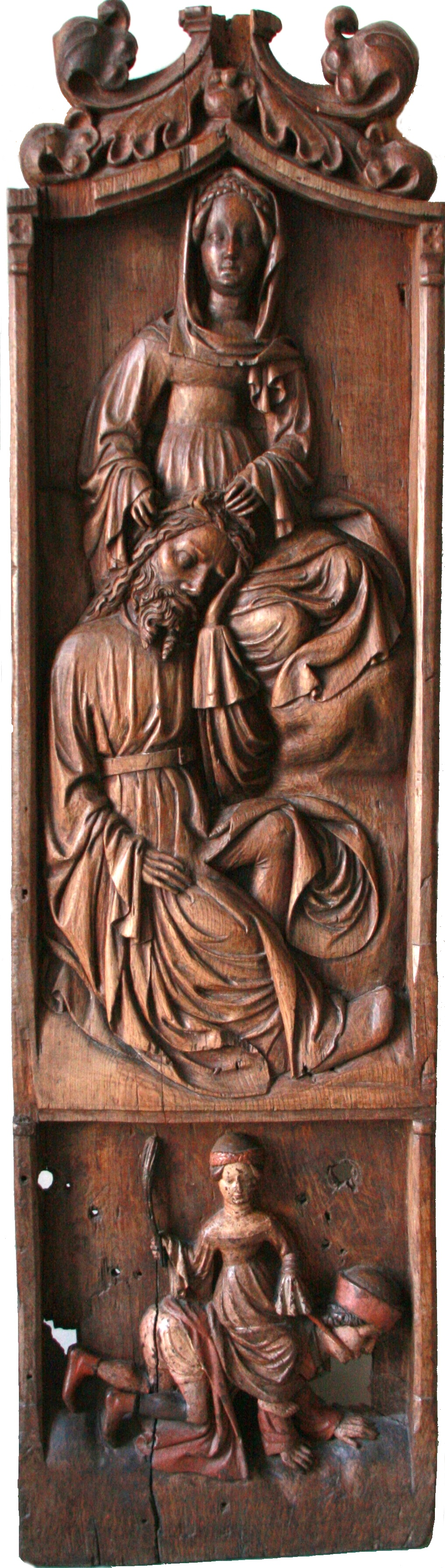 Samson & Delilah (upper relief), Aristoteles & Phyllis (lower relief). Carved bench end, oak, early 15th century, Tallinn Town Hall (Estonia)